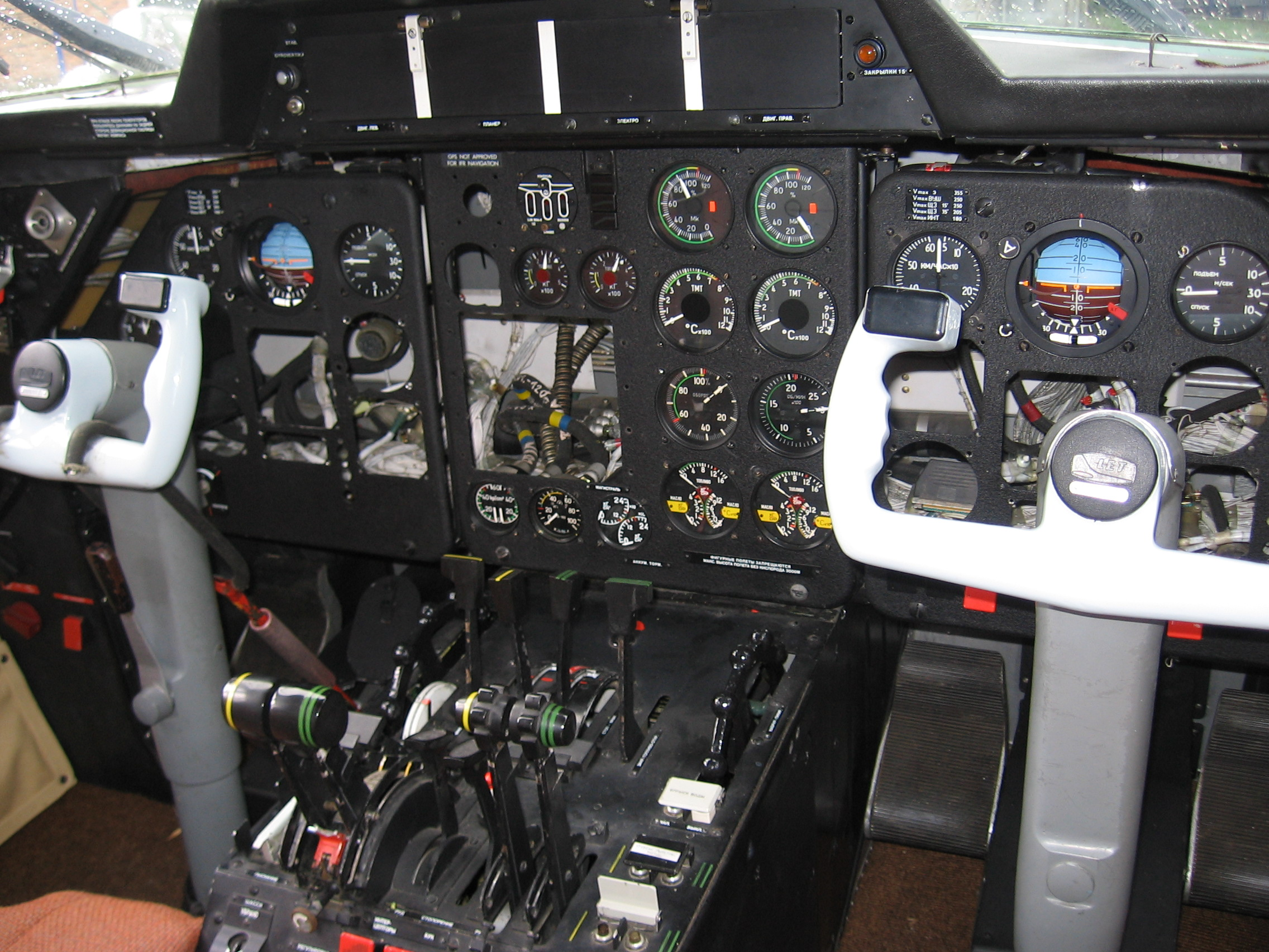 Cockpit of L-410, Kbely museum, Prague